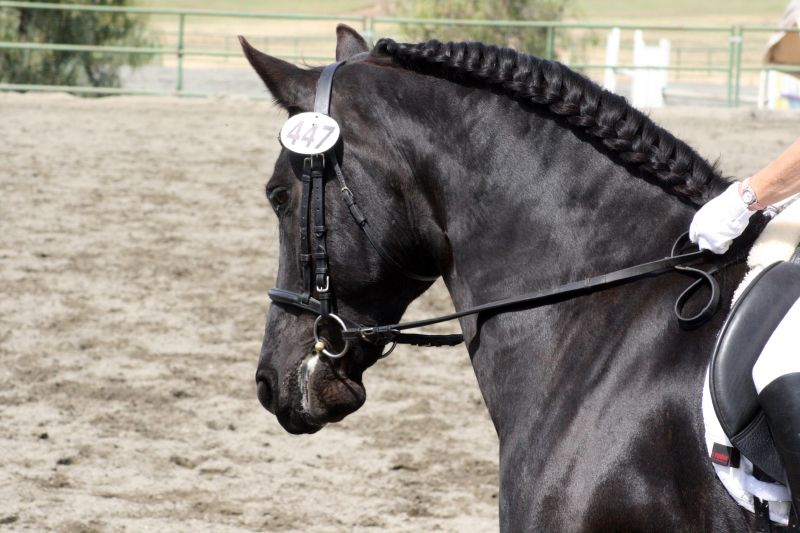 Friesian with braided mane